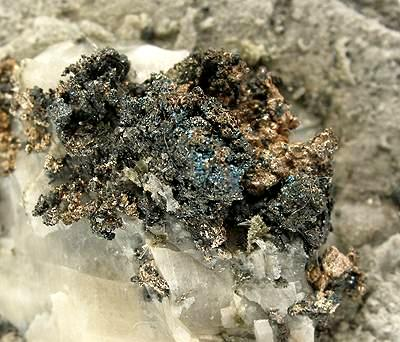 Silver, Calcite Locality: Kongsberg Silver Mining District, Kongsberg, Buskerud, Norway (Locality at ) Size: 5.4 x 4.2 x 2.4 cm. An old-time specimen of hackly native silver on massive calcite from the silver mines at Kongsberg, Norway. The silver has a lustrous, variable patina. Highly representative of the species and renowned locale. Ex. Wes Parker Collection.